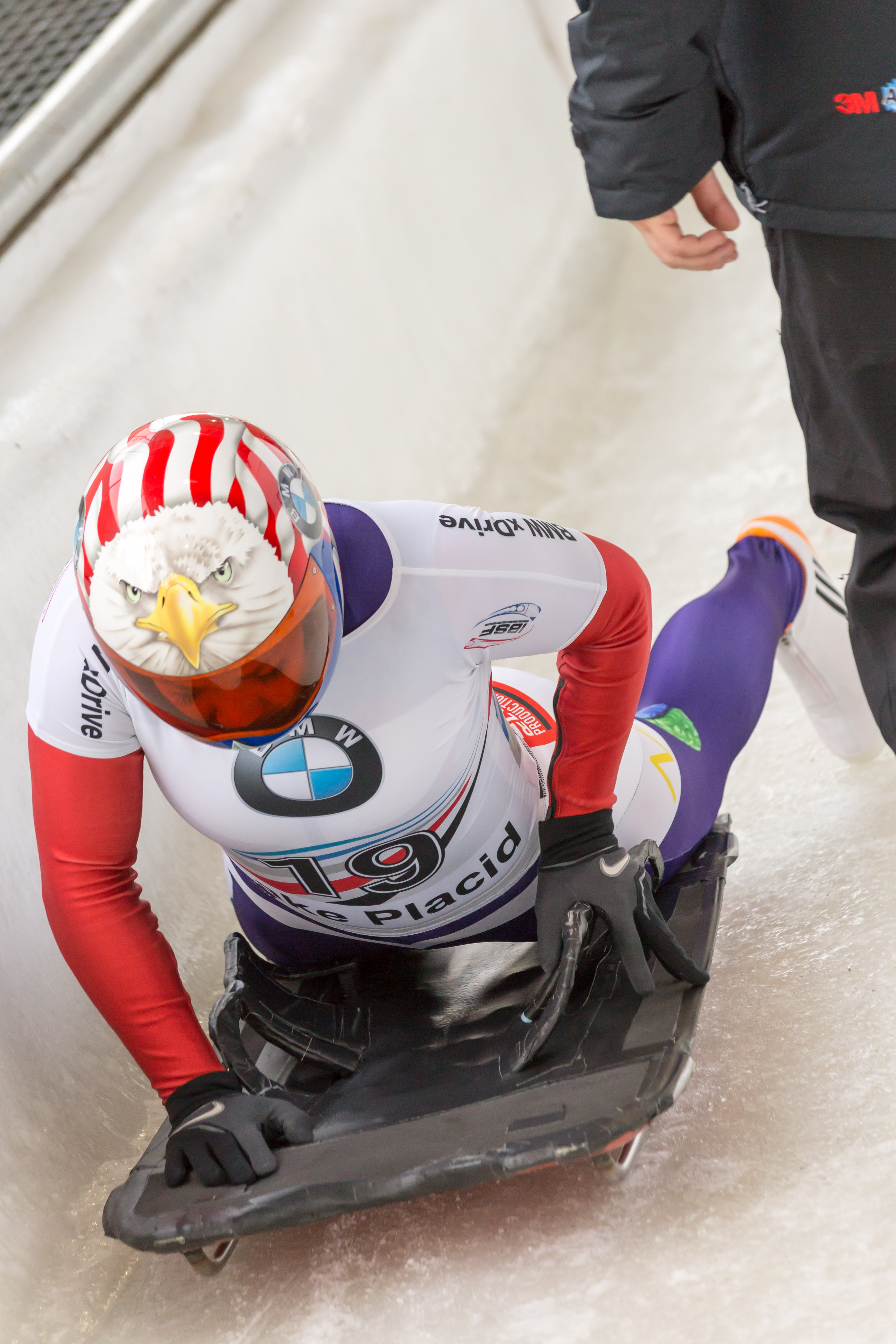 Katie Uhlaender (USA) slides into the finish in her second run at the 2017/2018 BMW IBSF World Cup race at Lake Placid. She finished 7th in second run, 9th overall, the best finish for a US athlete in this competition.